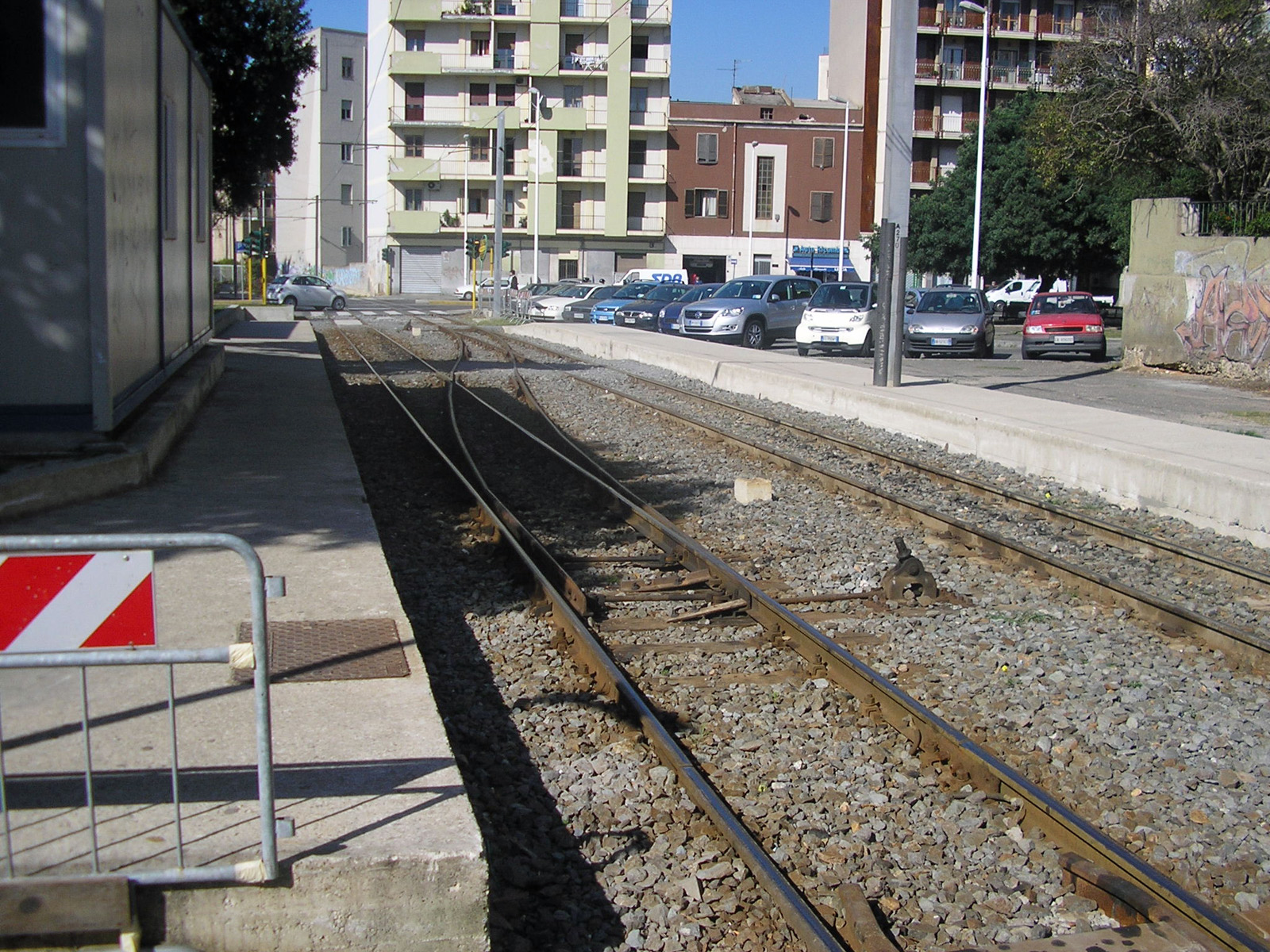 The former rail structures of the rail and then tram stop of Largo Gennari in Cagliari, Sardinia, Italy, used until 2008 for the railway Cagliari-Isili and then for the tramway of Cagliari. The mobile buildings on the left were removed afterwards and the platforms are not used anymore (the trams stop in front of the adjacent actual platforms)